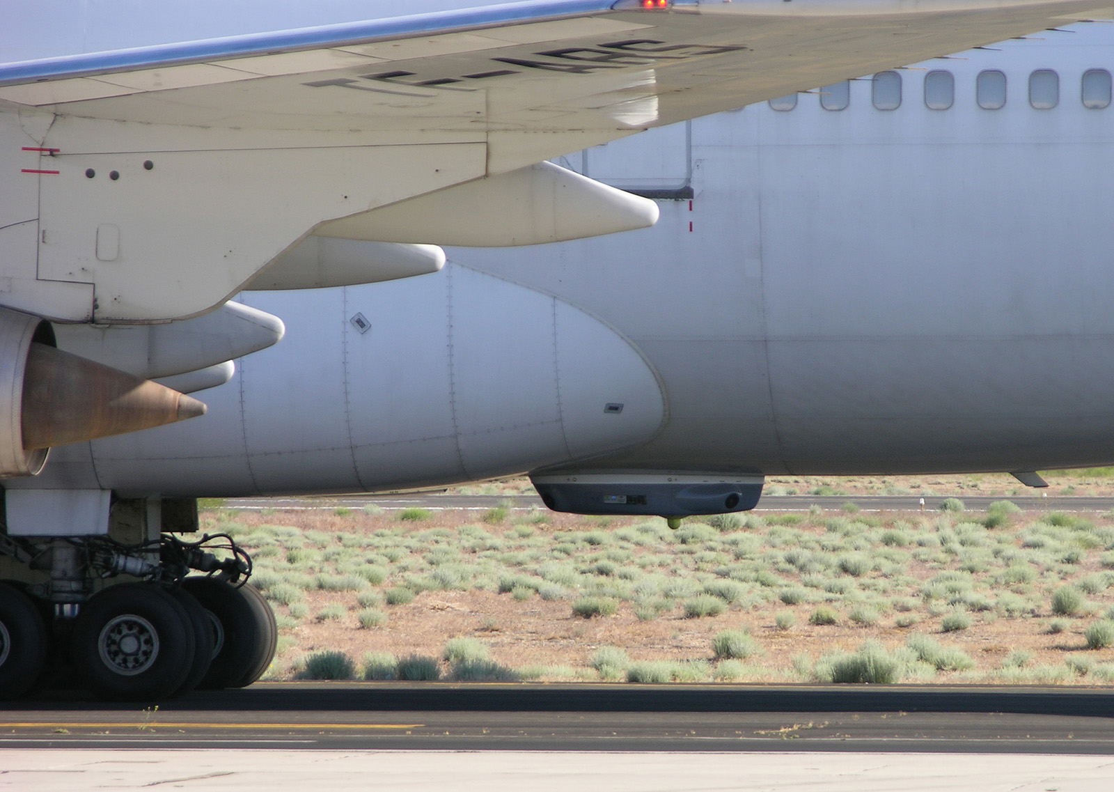 Northrop Grumman Guardian pod mounted on an Air Atlanta Europe 747-300 leased to FedEx for the pod's flight test program at Mojave